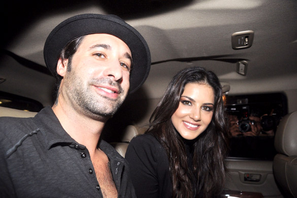 Sunny Leone,Daniel comes to India to promote 'Jism - 2'